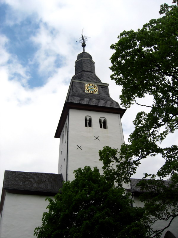 Ev. church at municipality Nümbrecht - view at the tower. - Blick auf den Kirchturm der Ev. Kirche in Nümbrecht. Author mrfinch Time of creation 29 Oct. 2004 Licence GNU FDL and CC-by-SA Camera Canon S 45